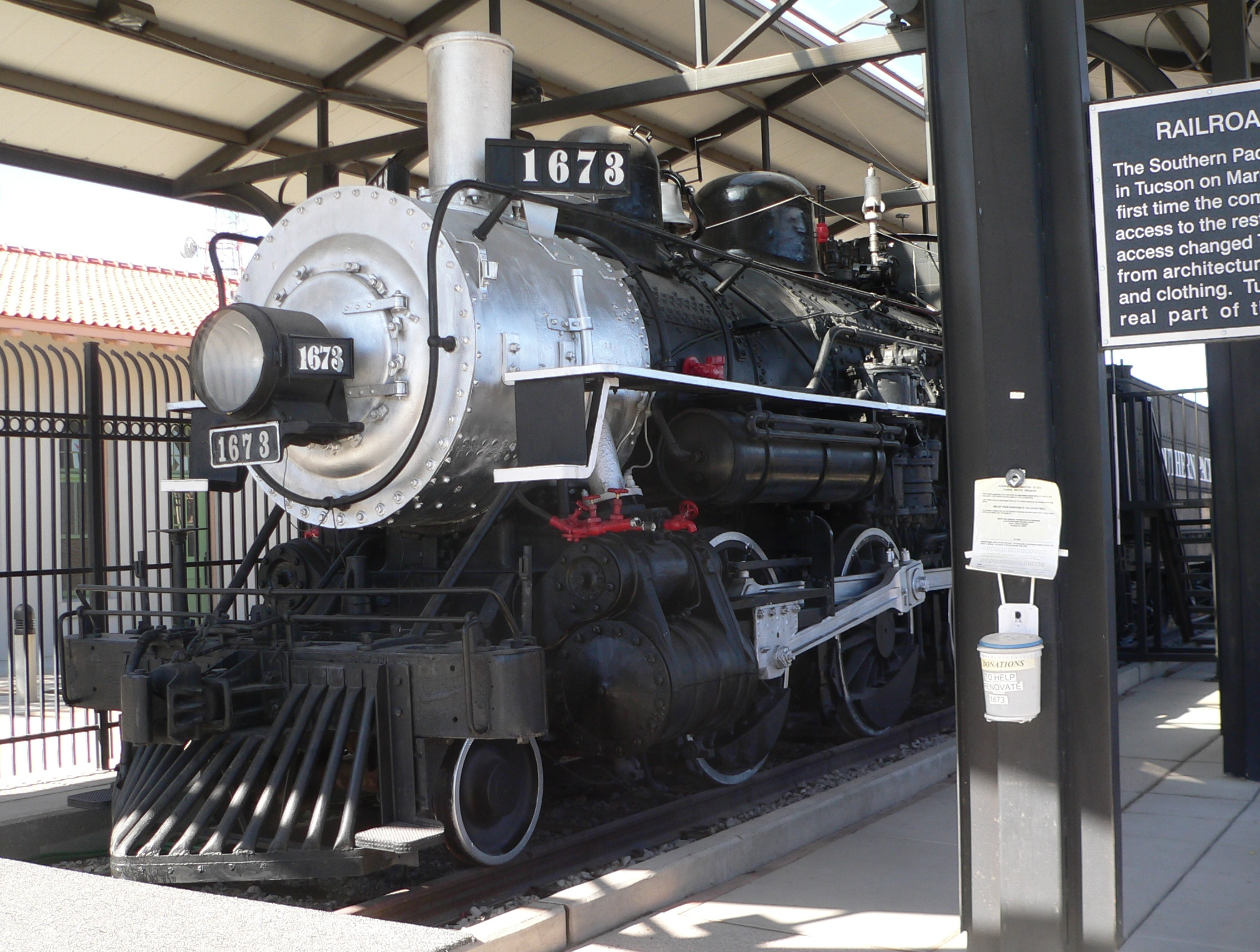 Southern Pacific 1673 locomotive, located at Southern Arizona Transportation Museum, 414 N. Toole Avenue, in Tucson, Arizona.